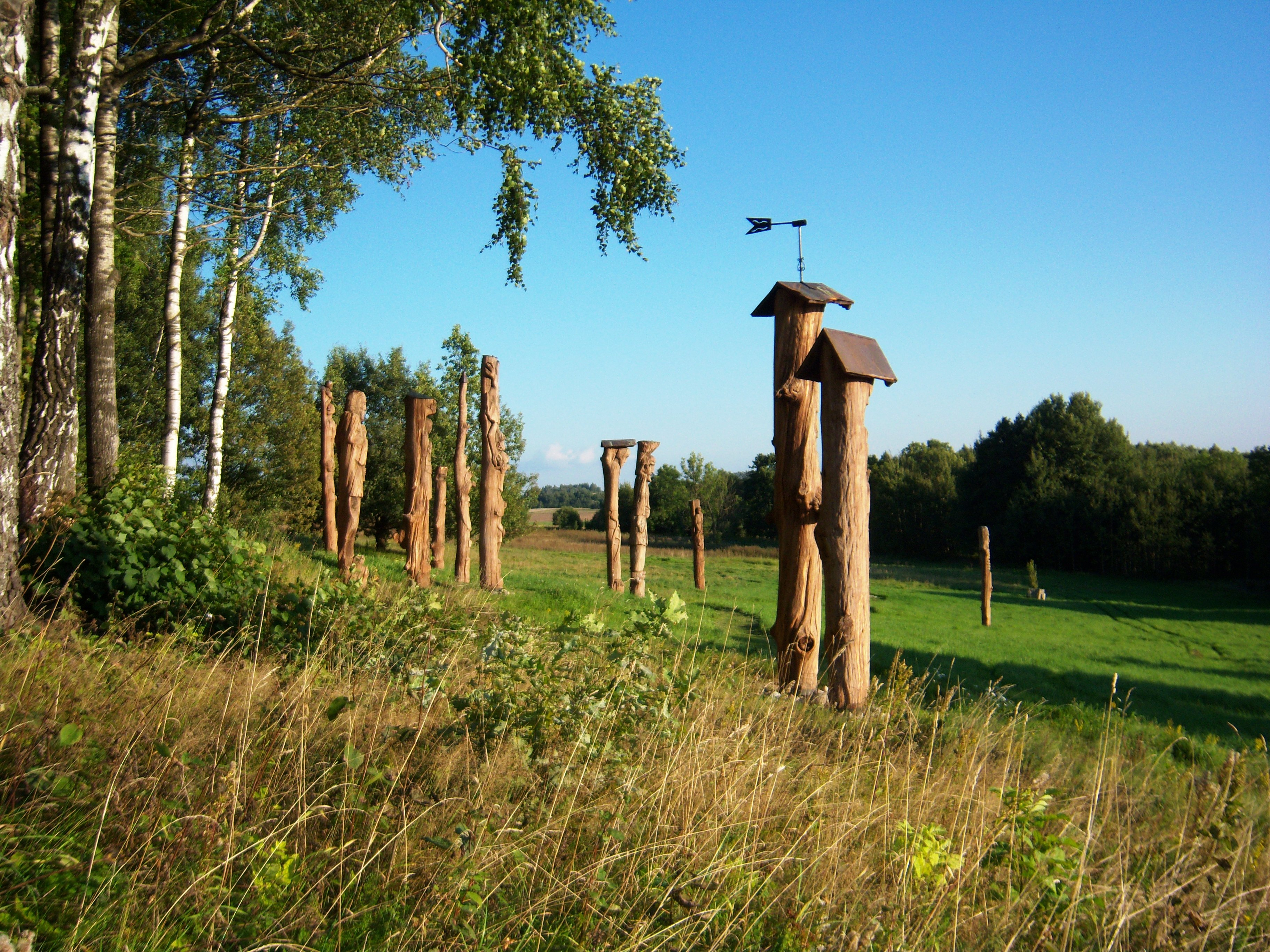 Wooden sculptures in Ablinga, Klaipėda District. Lithuania